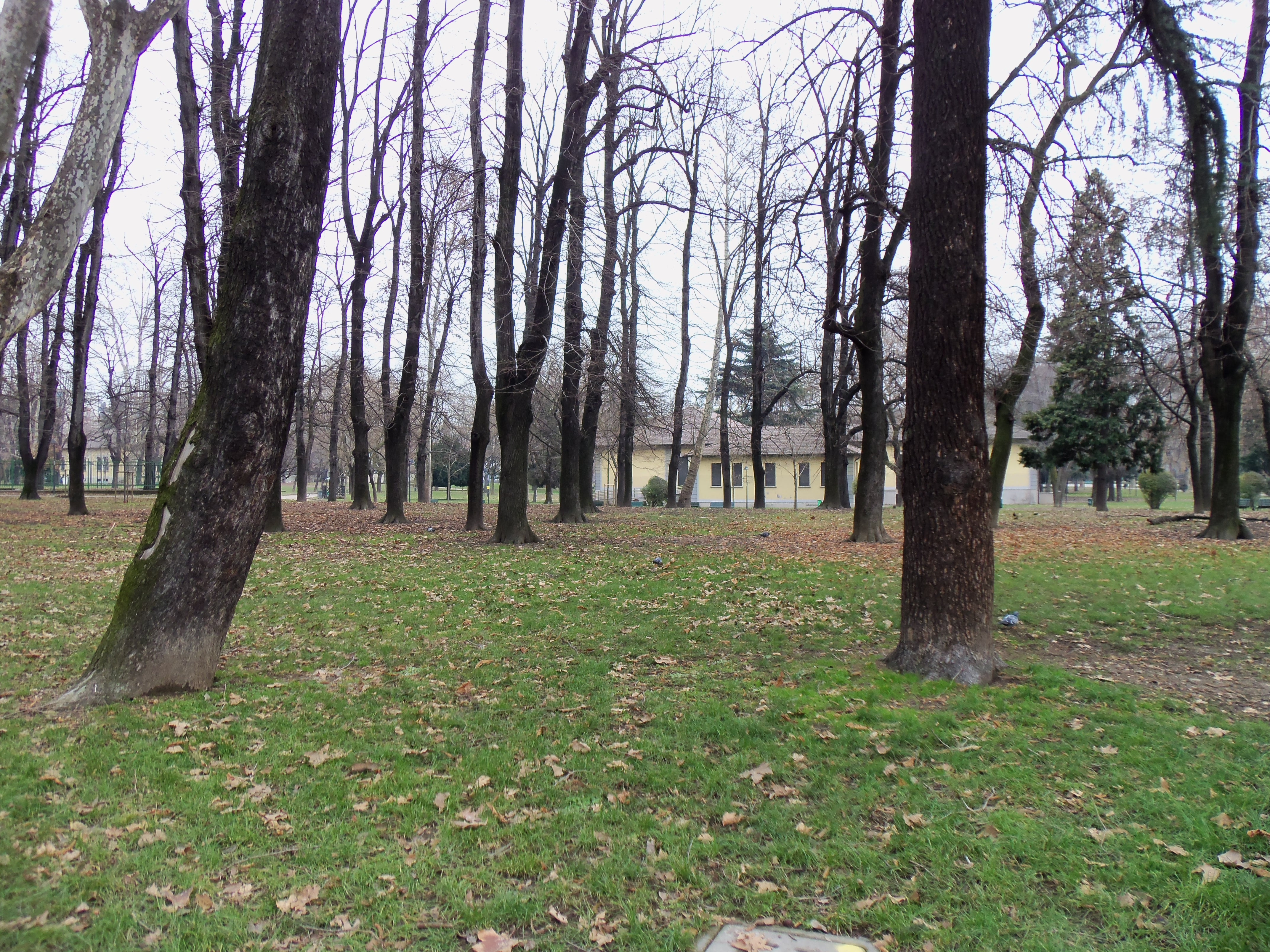 Milano, ex-Trotter park and open air school